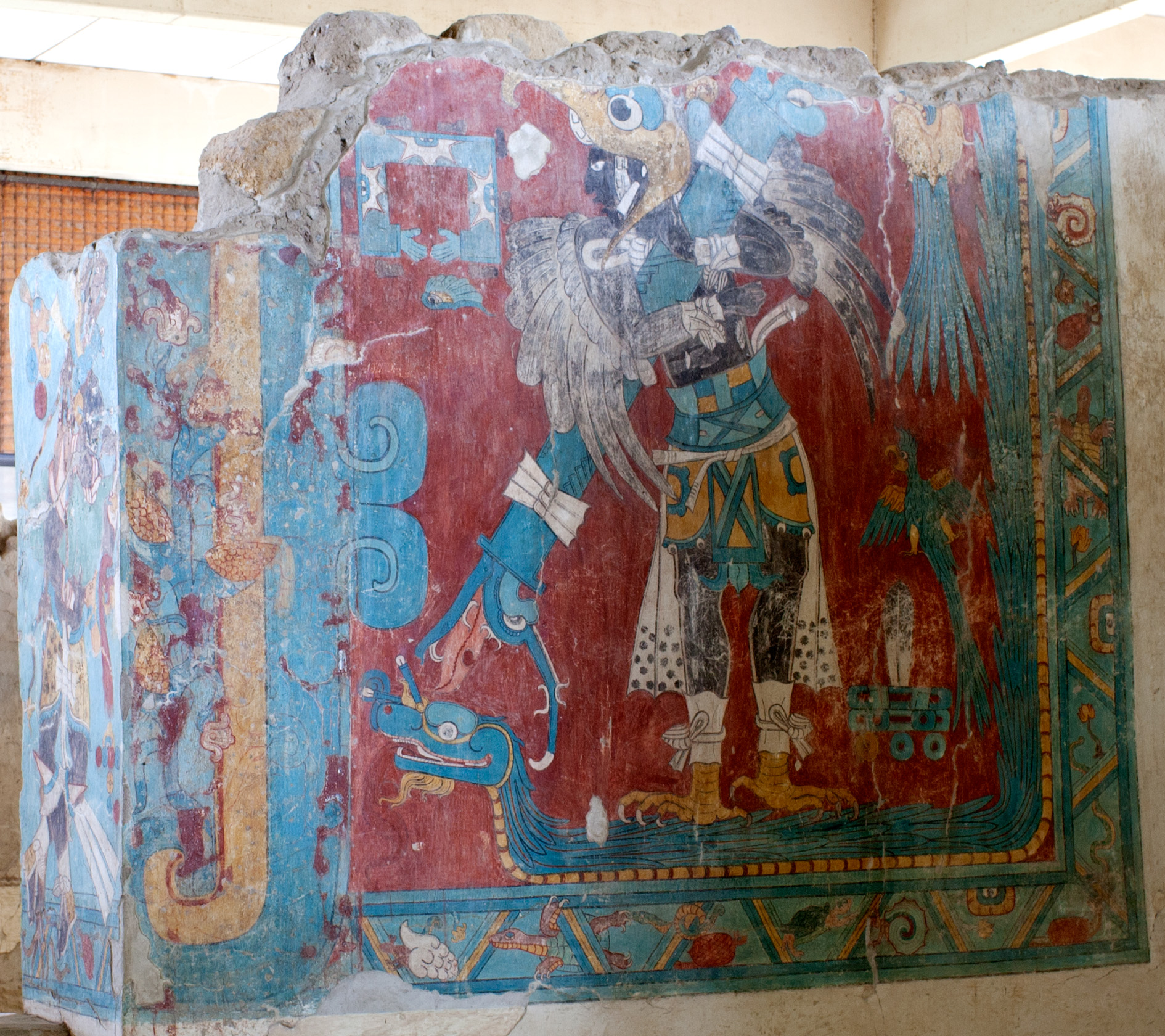 Feline man mural at Priestly Attier at Cacaxtla